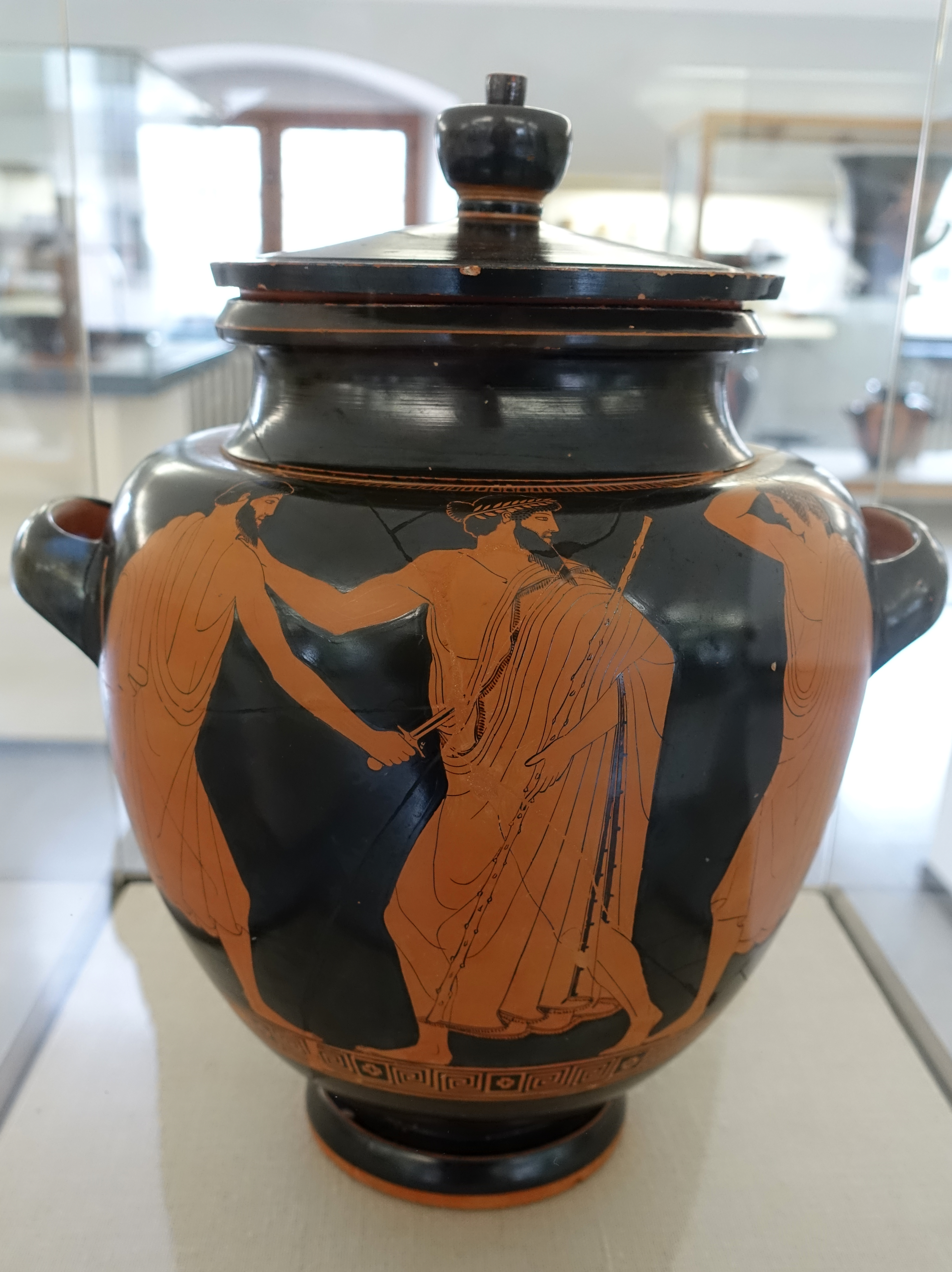 Exhibit in the Martin von Wagner Museum - Würzburg, Germany.